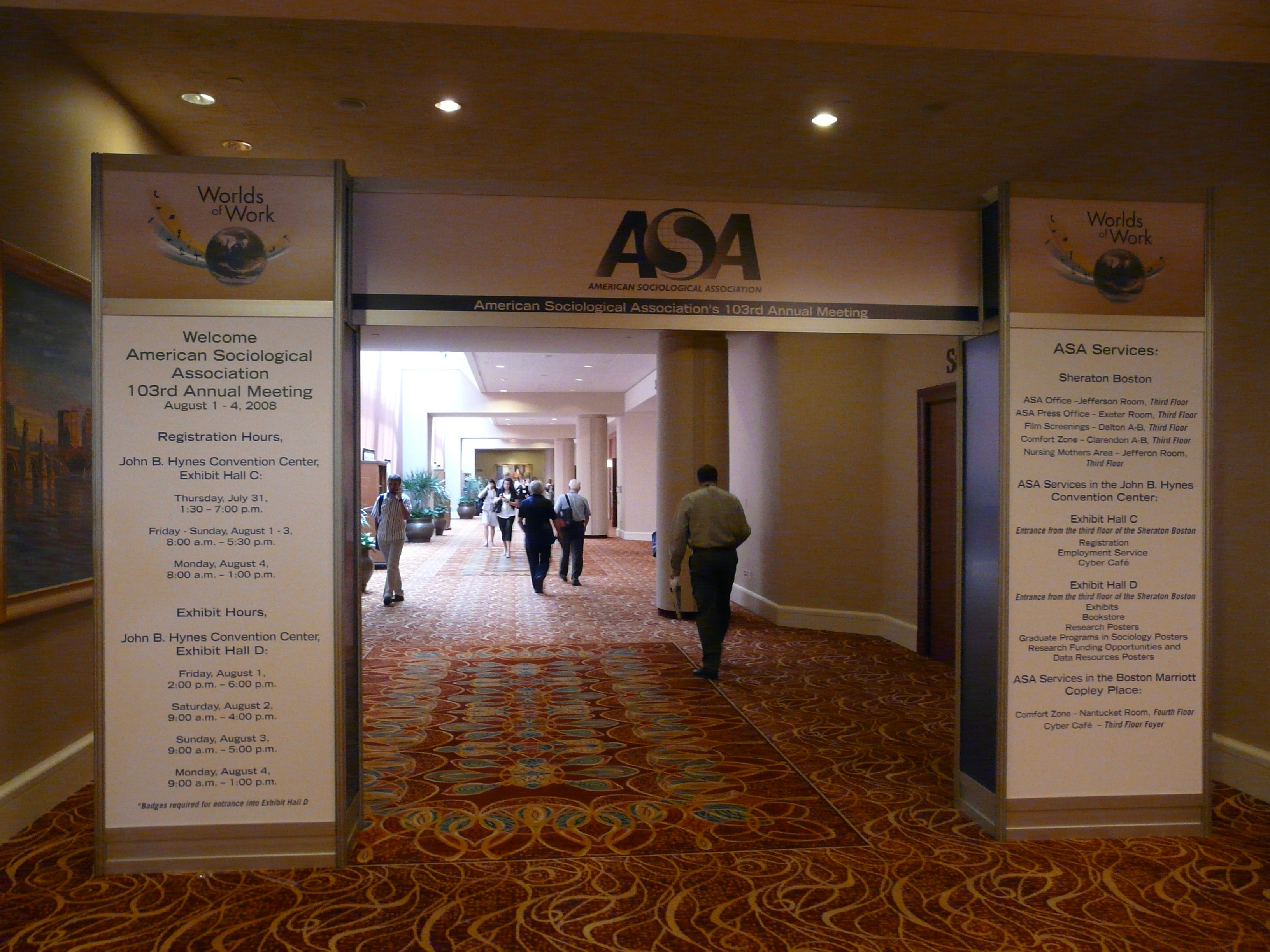 Boston. American Sociological Association conference.